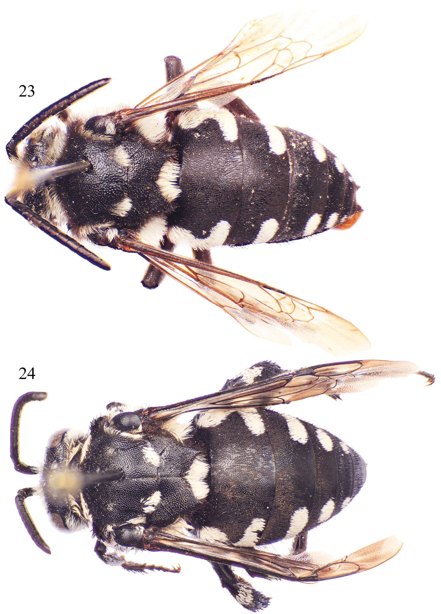 Dorsal habitus of Thyreus schwarzi from São Nicolau. 23 Male 24 Female.